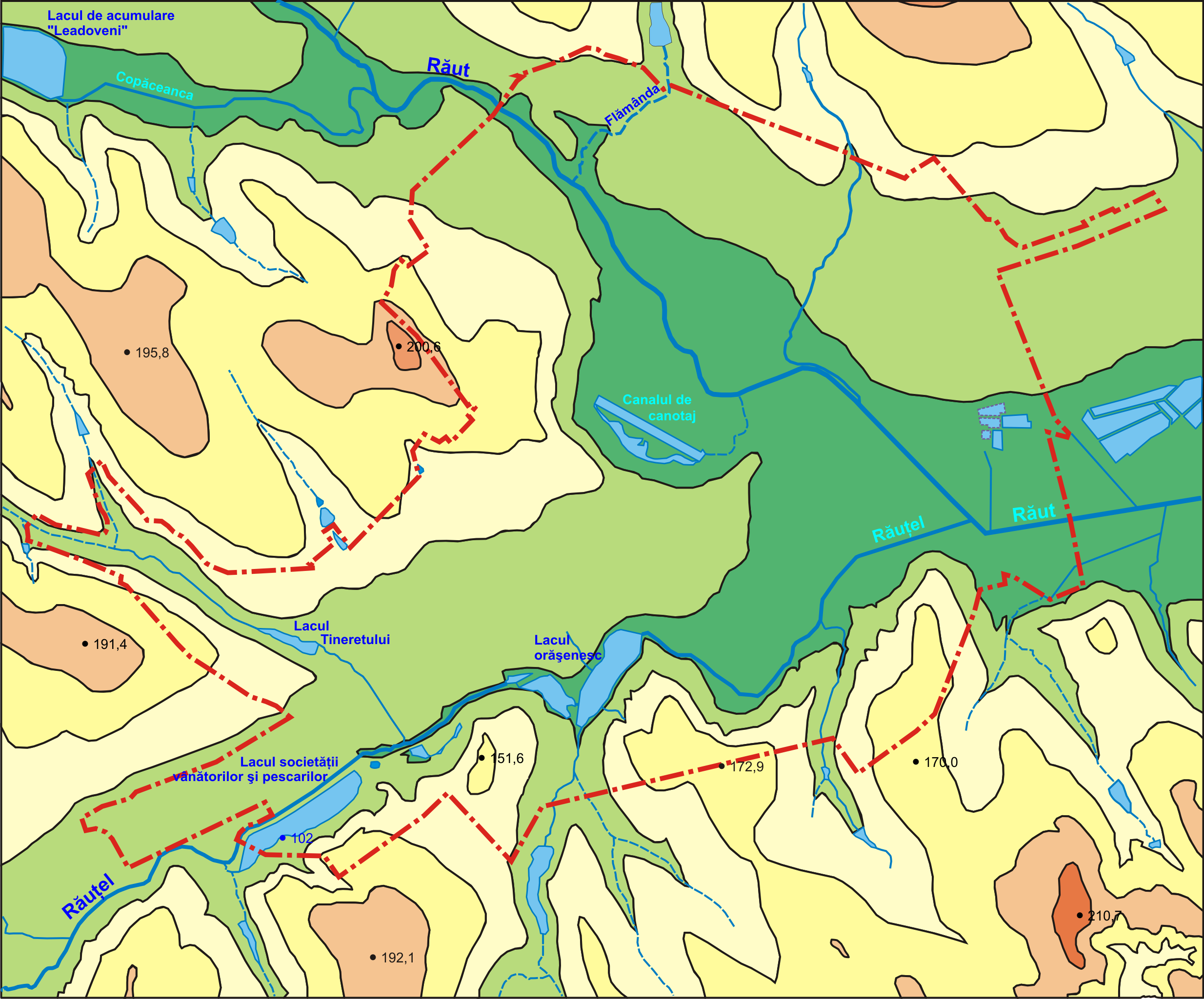 Physical map of Bălți